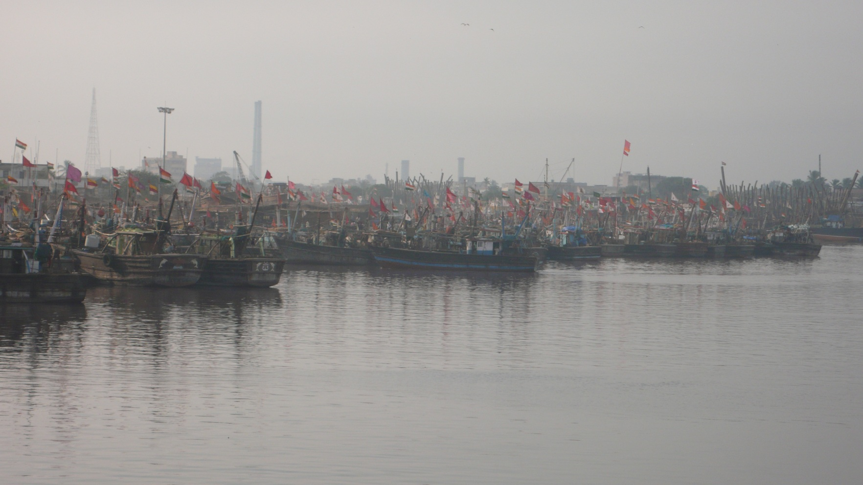 Viraval.in Fishery Harbour Somanath